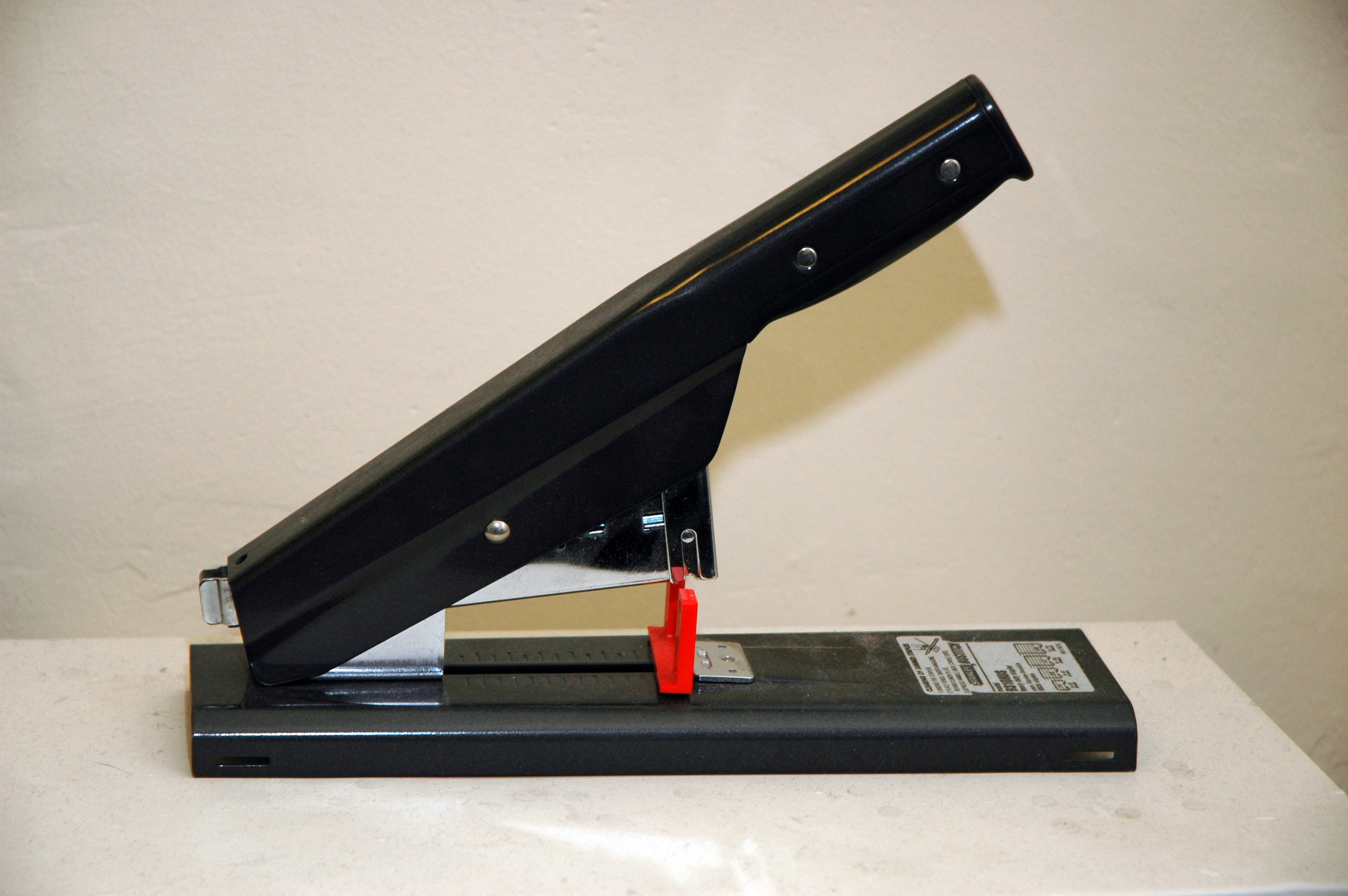 Heavy duty Bostitch stapler. The gizmo that holds the staples in place is not inserted. Photo is for wikipedia article on staplers.